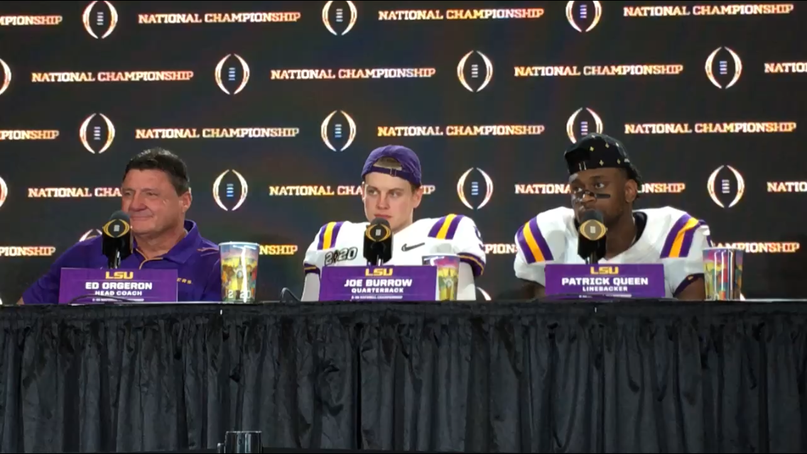 LSU head coach Ed Orgeron, quarterback Joe Burrow, and linebacker Patrick Queen, at the post-game presser immediately after the 2020 College Football Playoff National Championship in the Mercedes-Benz Superdome in New Orleans.